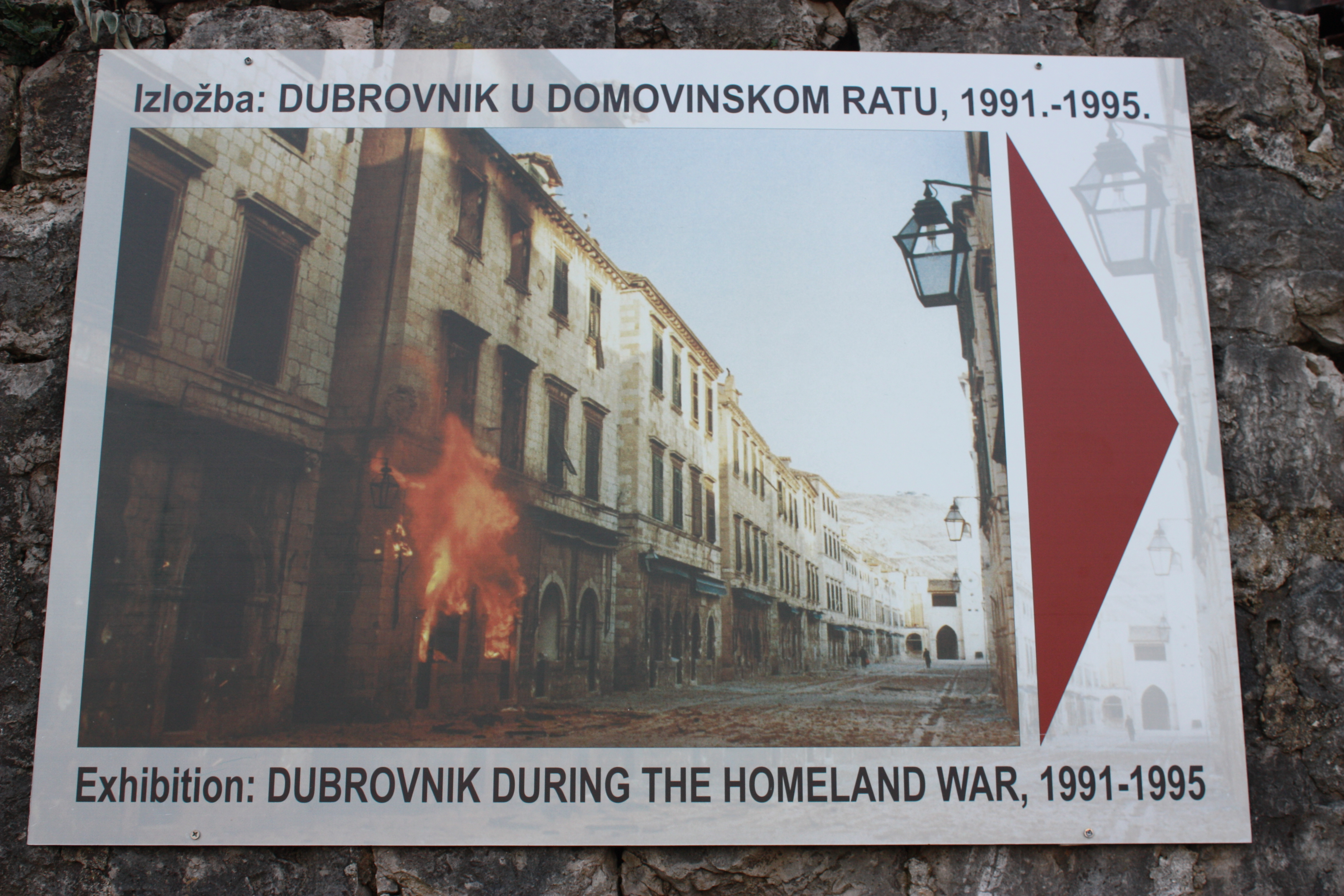 Poster at the museum of the Homeland war in DubrovnikHrvatski: Muzej Domovinskog rata u Dubrovniku